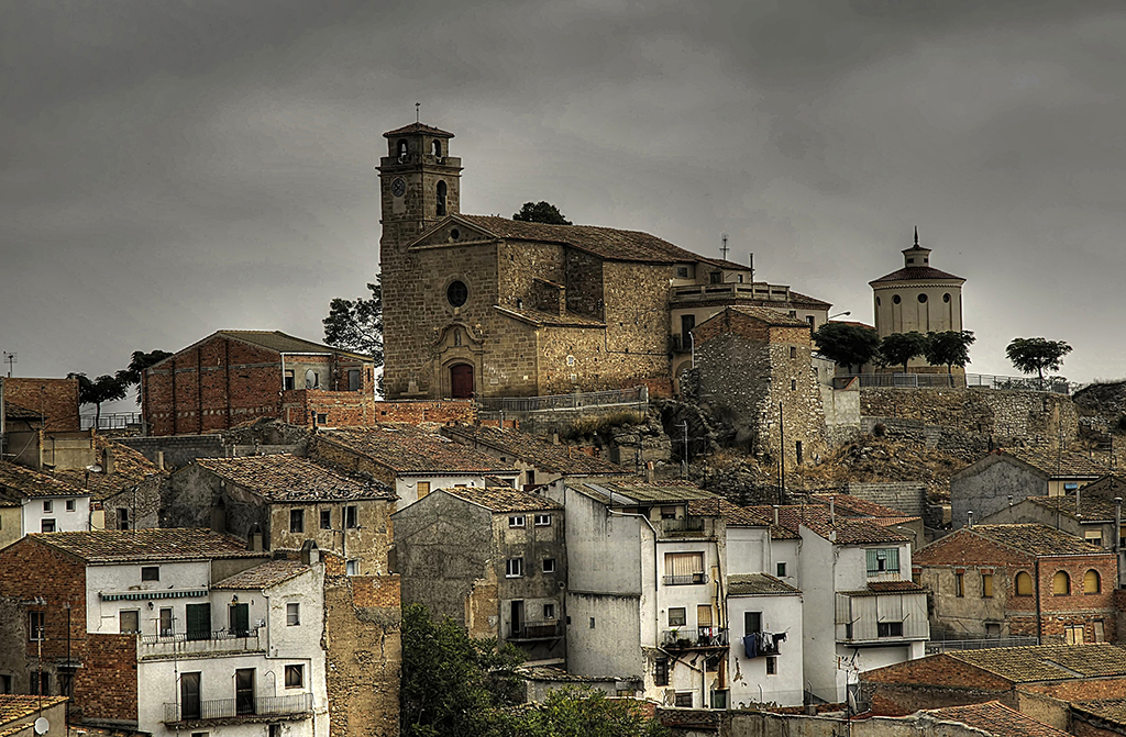 La Sentiu de Sió. Photo by José Luís N.B.